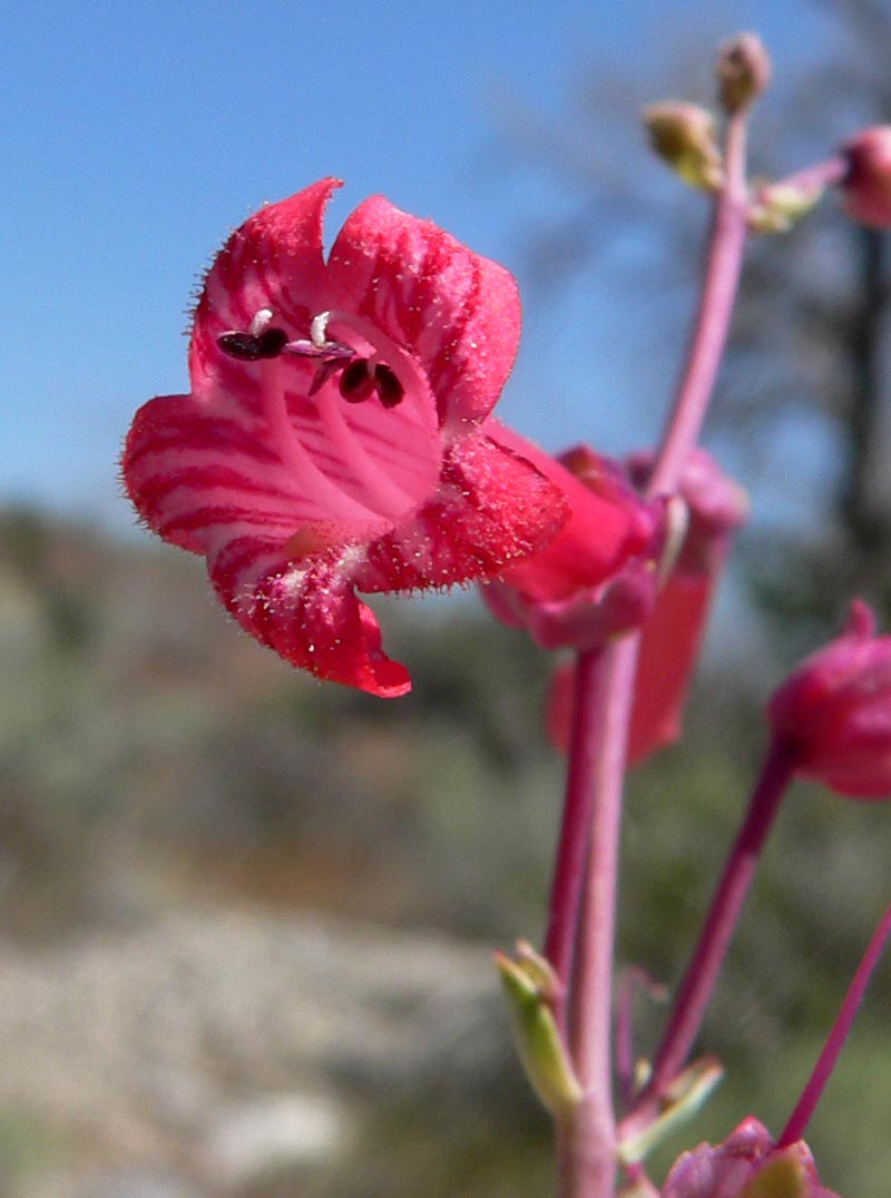 Photo of Penstemon utahensis in Red Rock Canyon near Las Vegas, Nevada